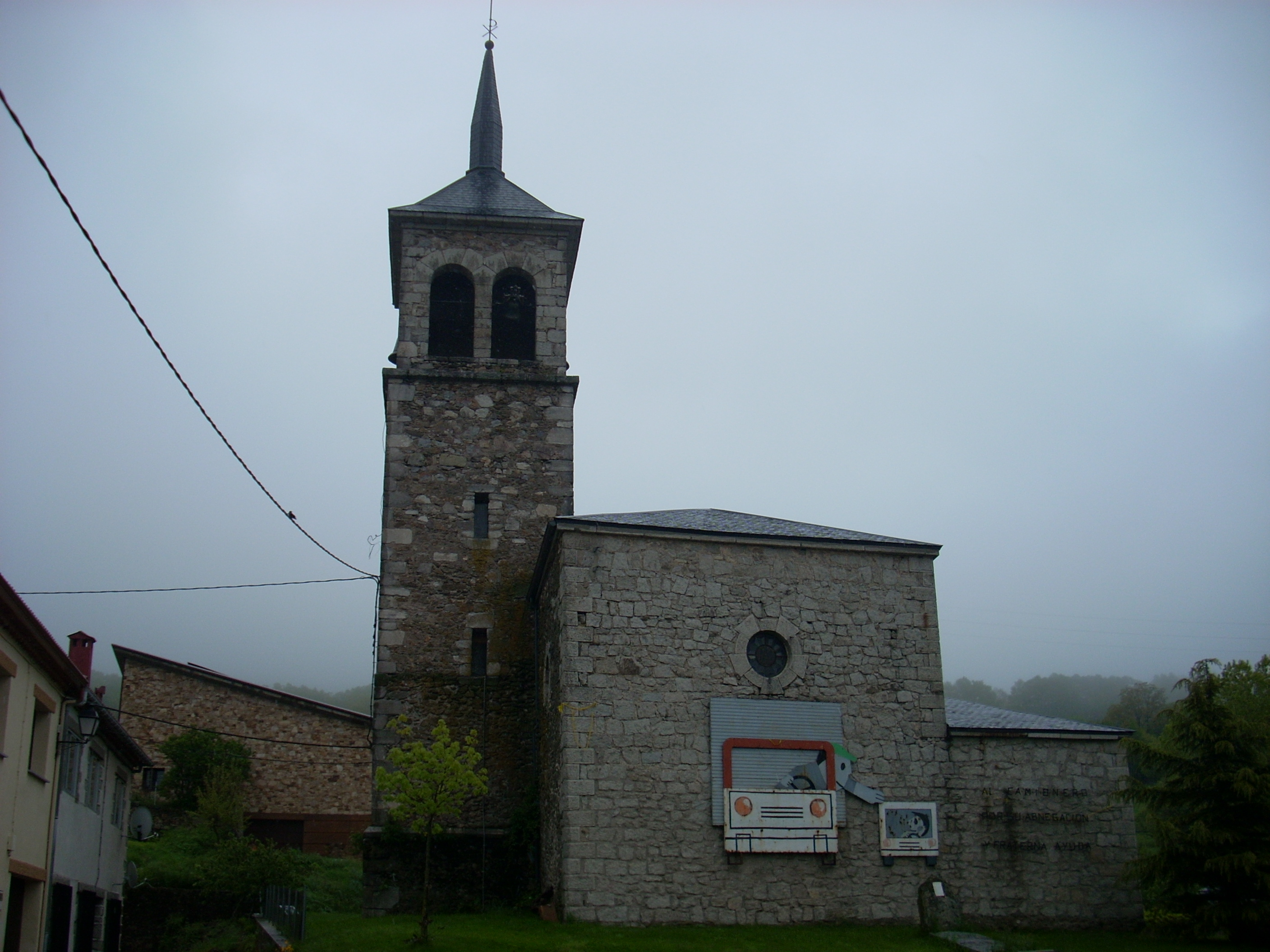 Church in Somosierra, Spain